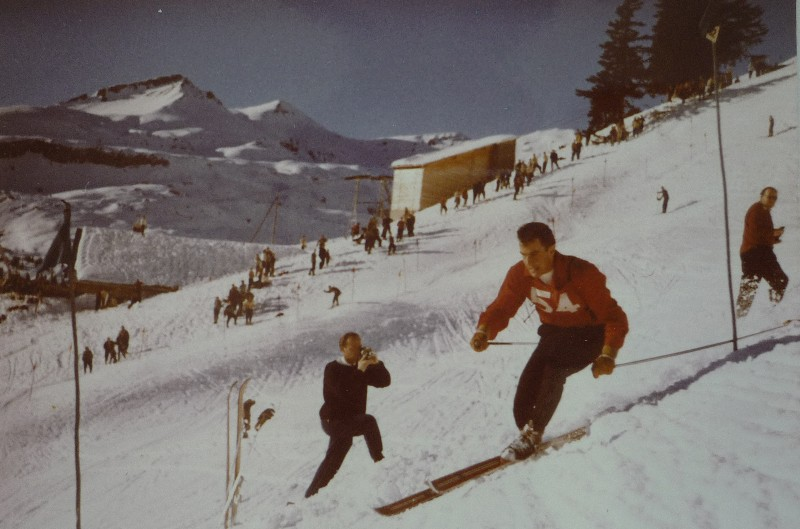 Roger Staub from Arosa at a race in Flims, Naraus cablecar station in the background